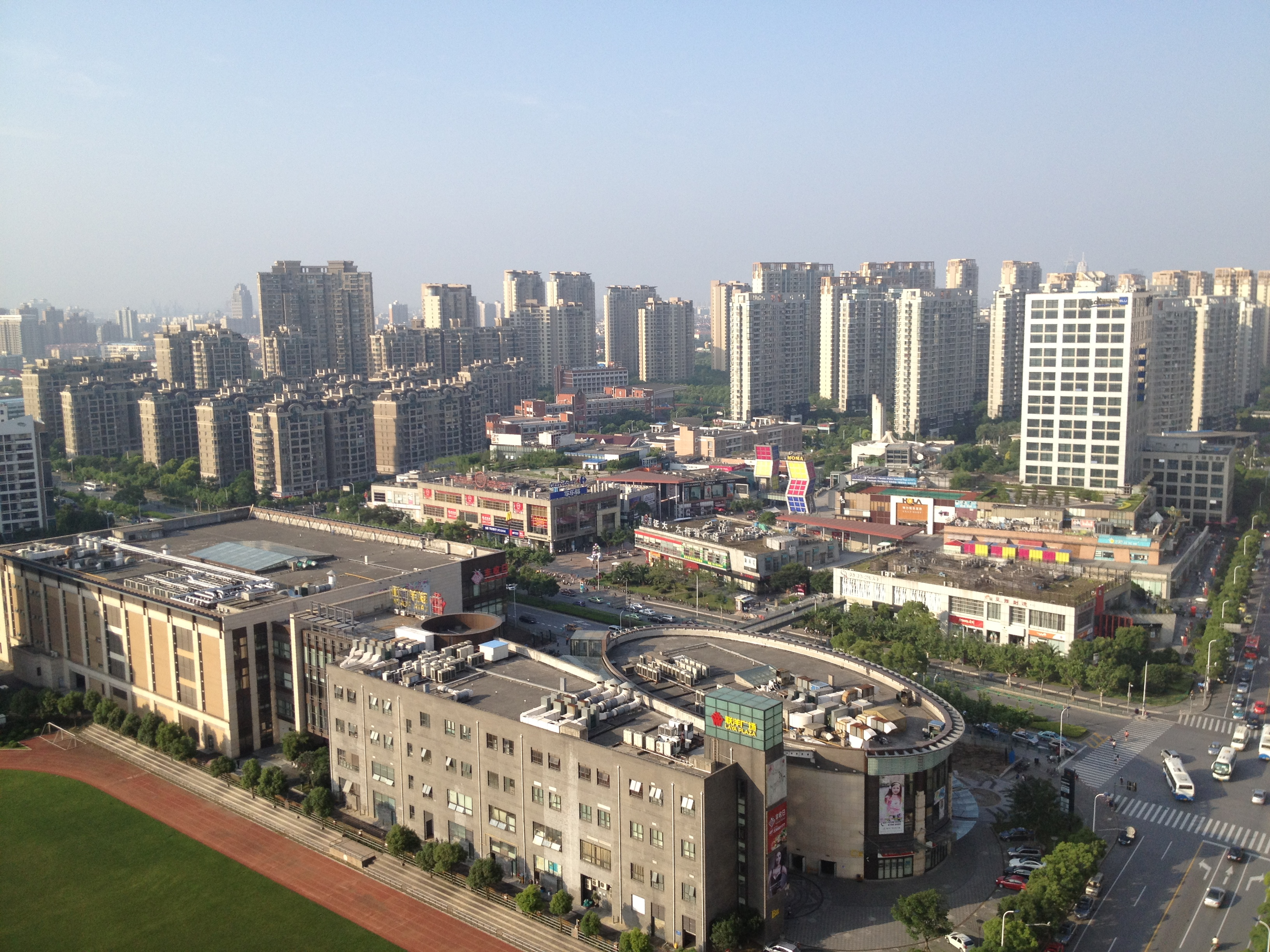 Damuzhi plaza